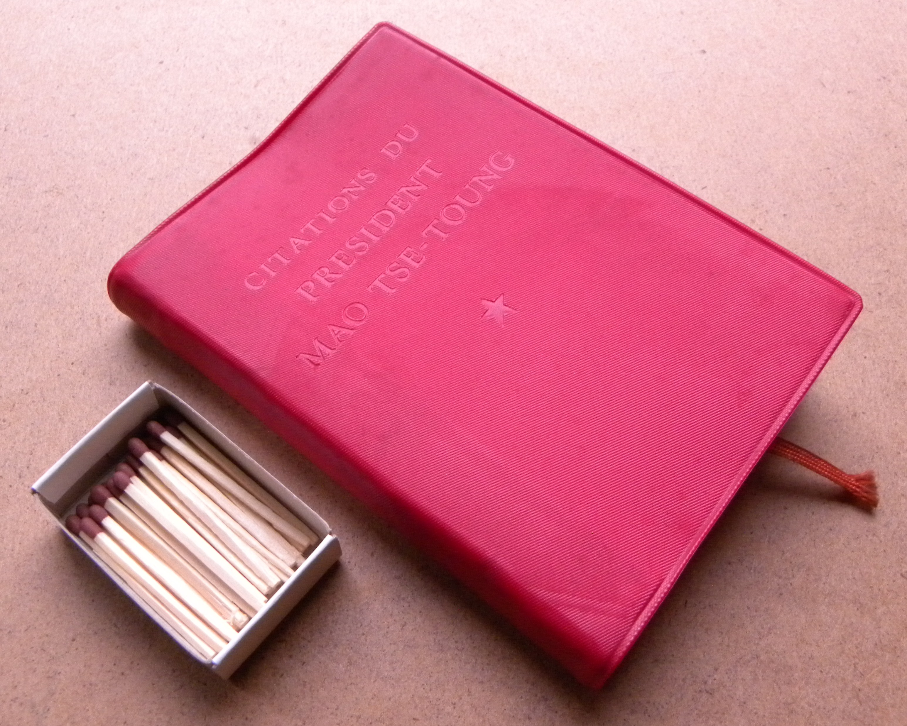 The little Red Book - Quotations from President Mao Zedong - Firts French Edition - 1966 - printed in the Peoples' Republic of China. This is a perspective look of the booklet. With a matchbox to give the scale 95 x 134 mm